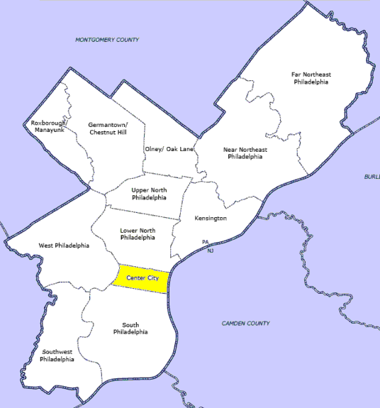 Map of Philadelphia County highlighting Center City